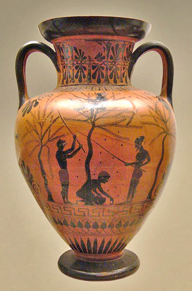 Scene of olive-gathering by young people. Attic black-figured neck-amphora, ca. 520 BC. From Vulci, Italy.